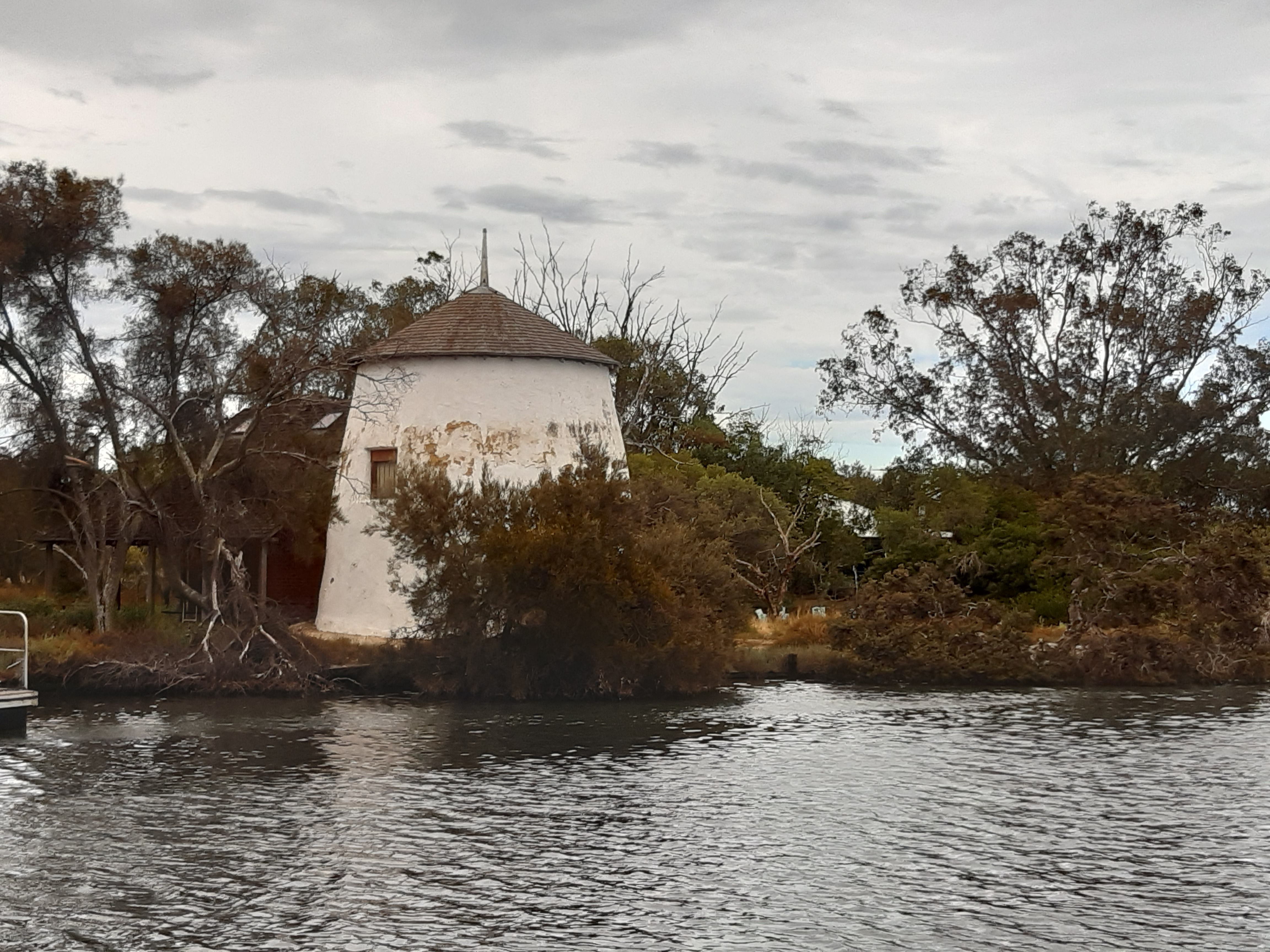 The historic Cooper's Mill, South Yunderup, Western Australia. The mill was built in 1843.